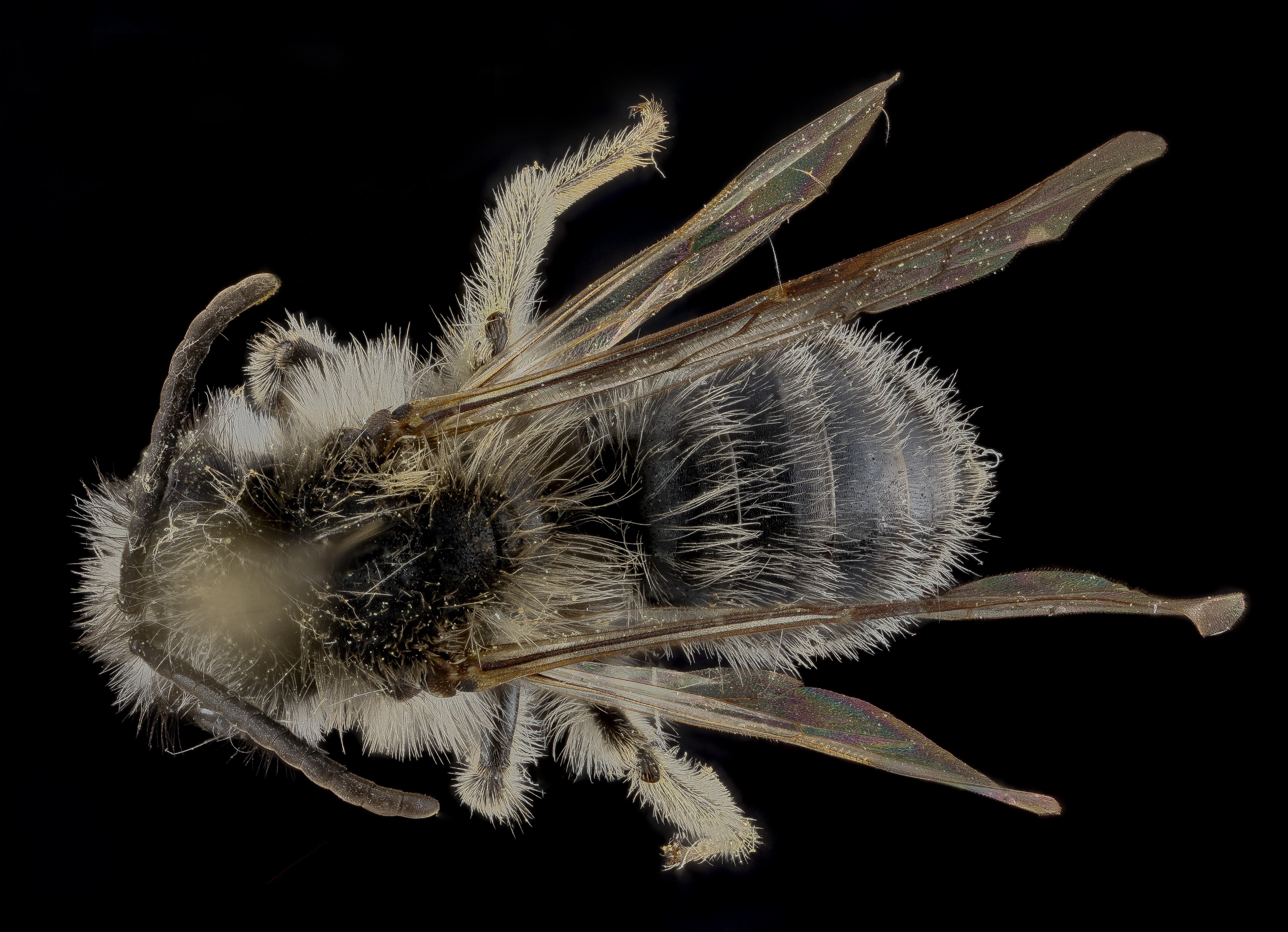 Middlesex County, Massachusetts